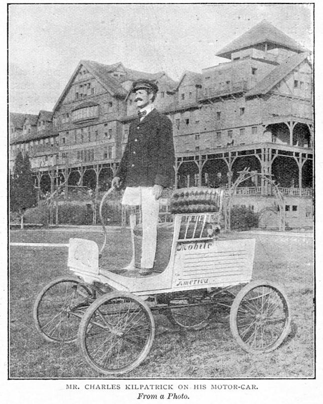 Stunt performer Charles Kilpatrick standing in his automobile in which he would ride down a 100 plus foot ramp. The automobile was steam-powered and manufactured by Mobile Company of America.